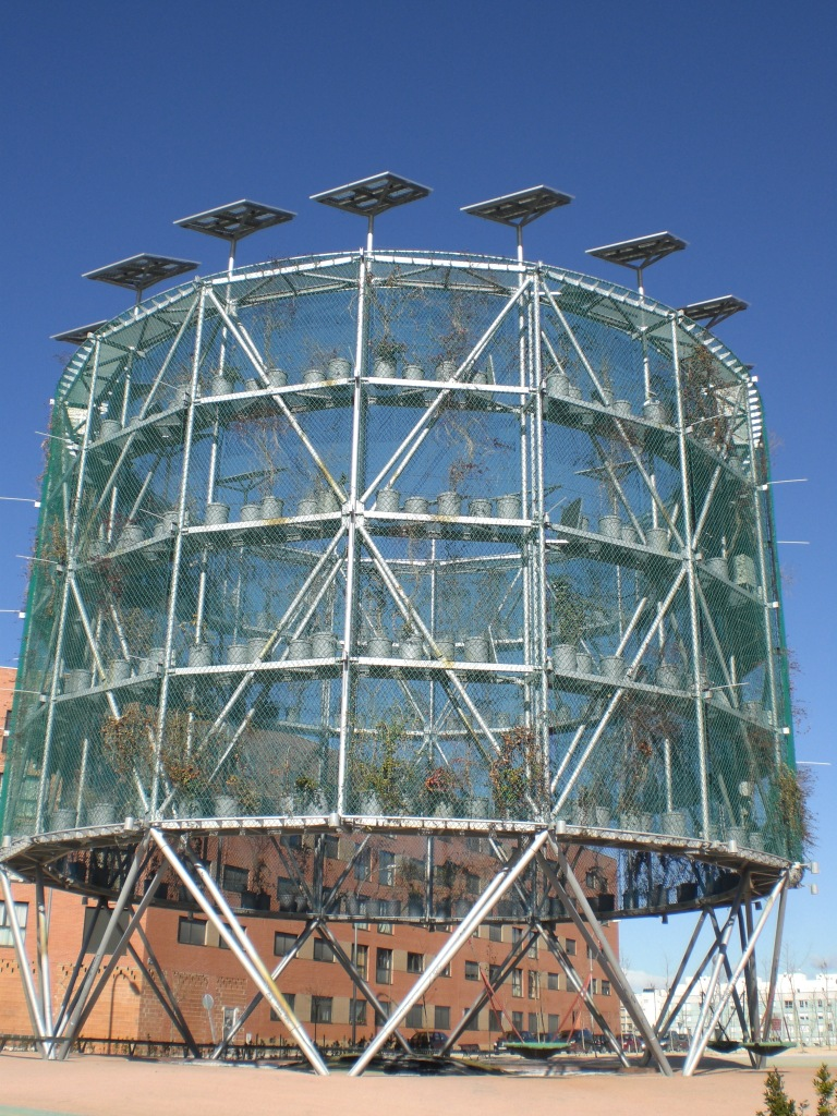 View of Eco-Boulevard in Villa de Vallecas district in Madrid (Spain).